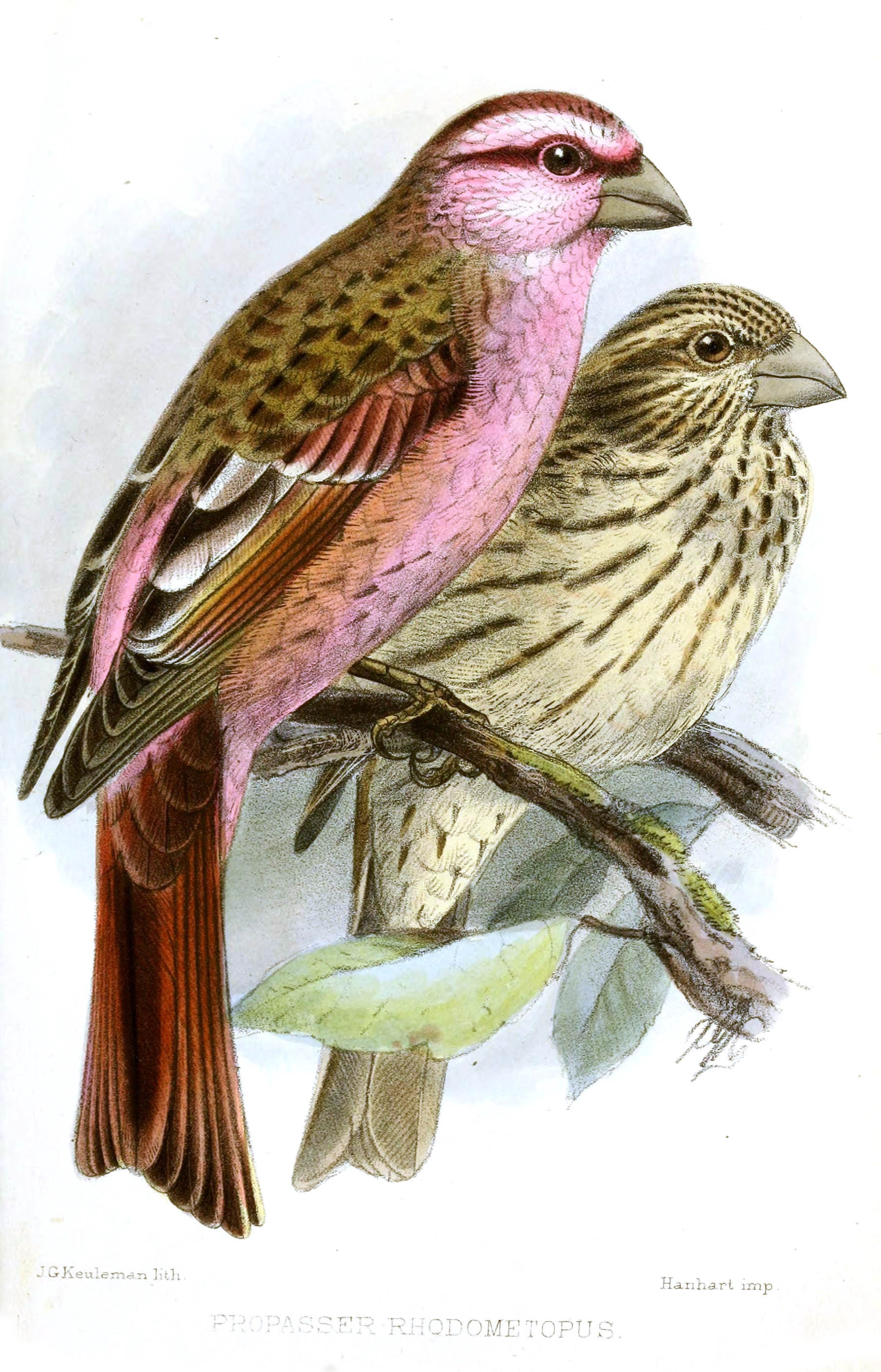 « Propasser rhodometopus » = Carpodacus rhodochlamys (Red-mantled rosefinch) - male and female